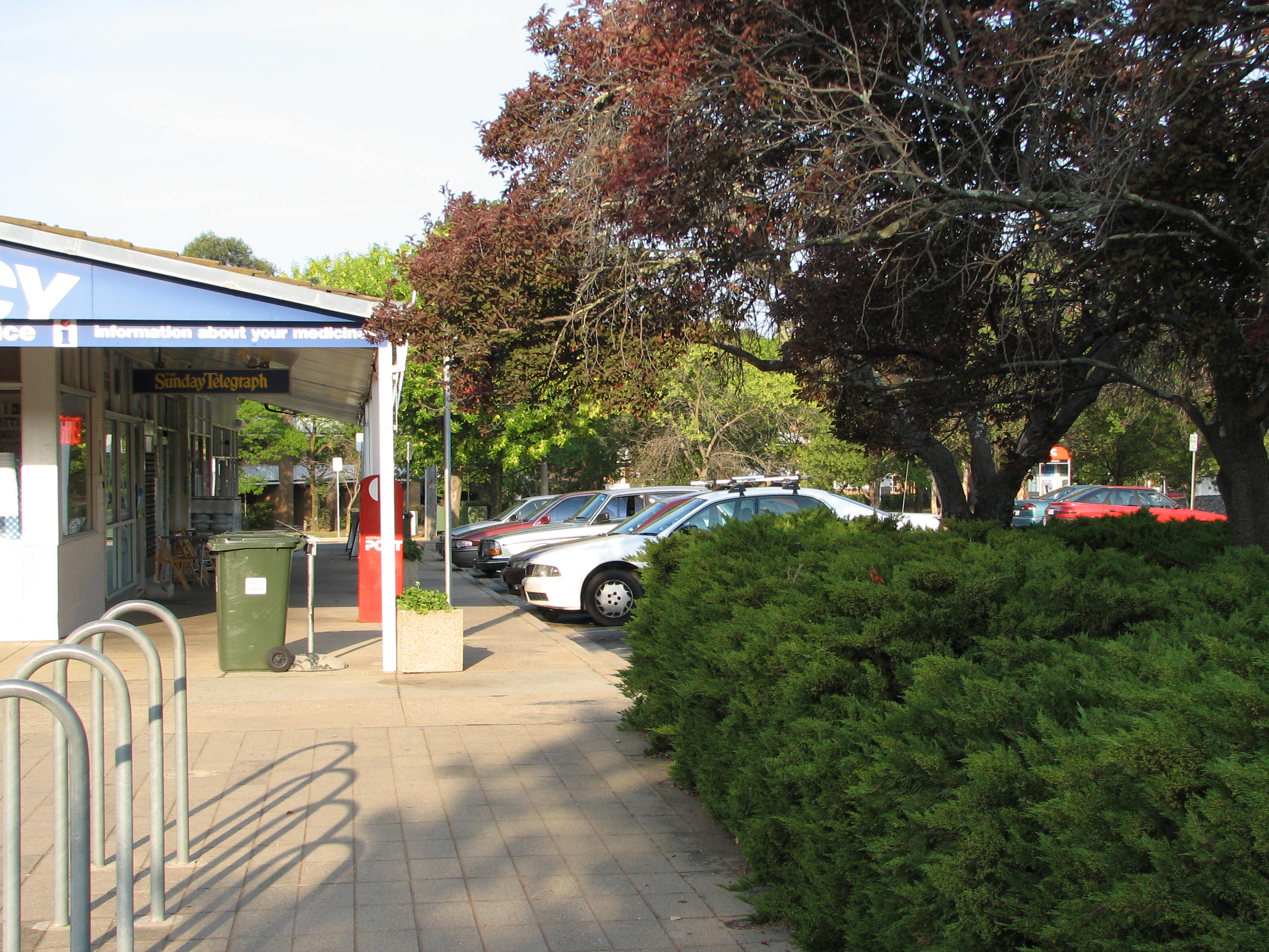 Local shops in Lyons, Australian Capital Territory. Taken by me on 14th January 2007.